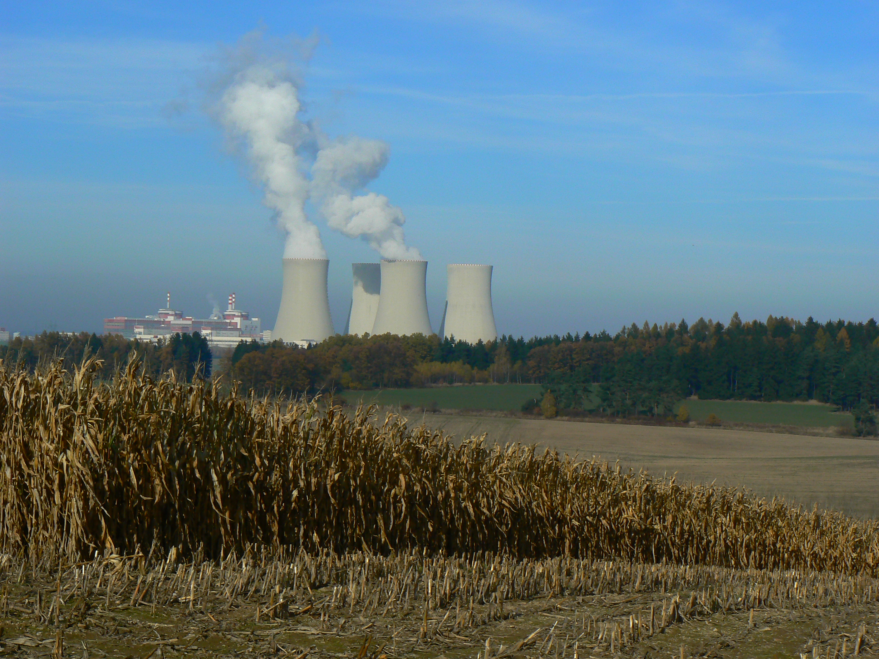 View of Temelín power plant over a field behind Týn nad Vltavou, České Budějovice district, Czech Republic